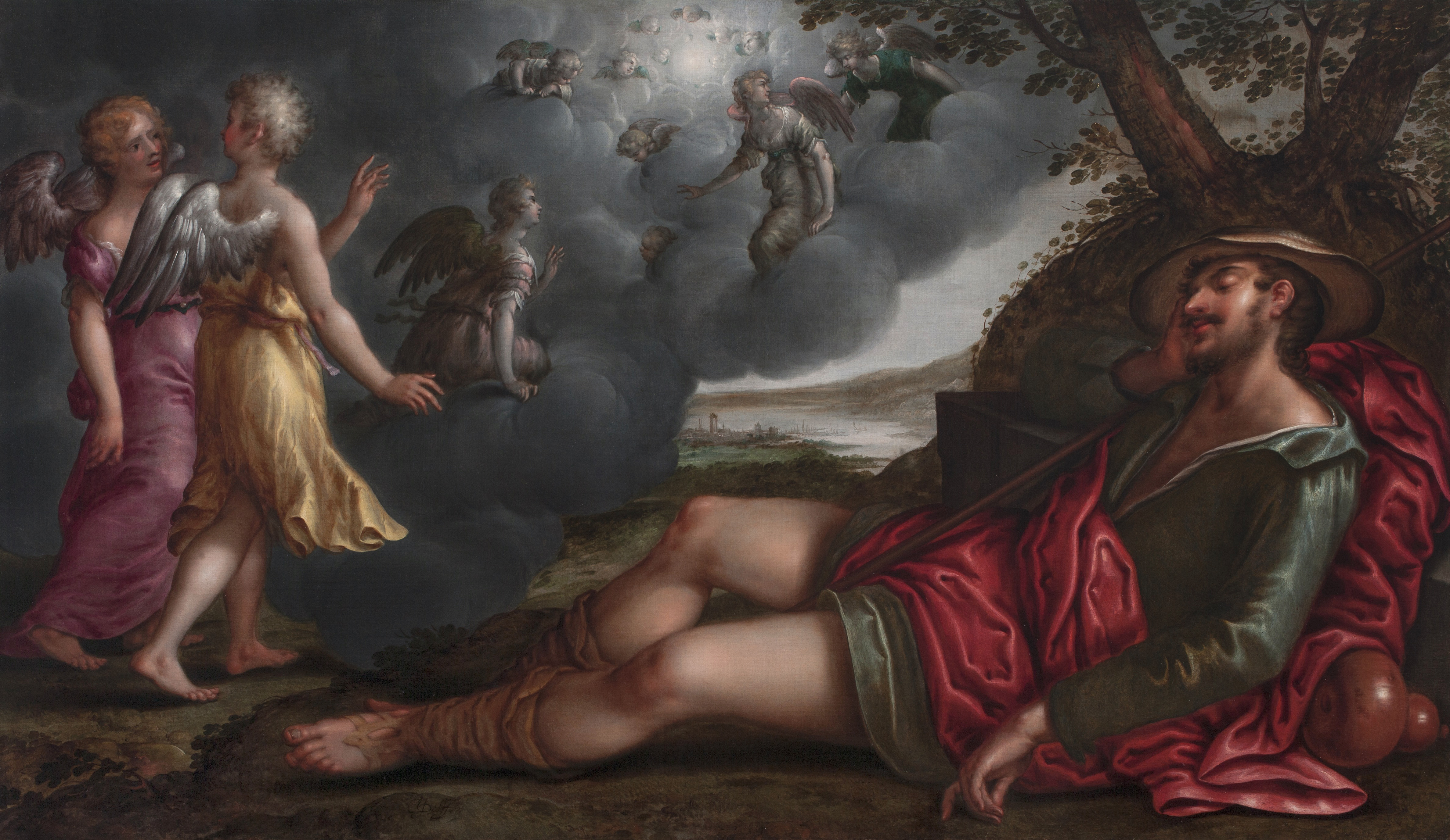 Jacob’s dream oil on canvas 95,6 x 157 cm signed b.l.: C.J. Delff circa 1605